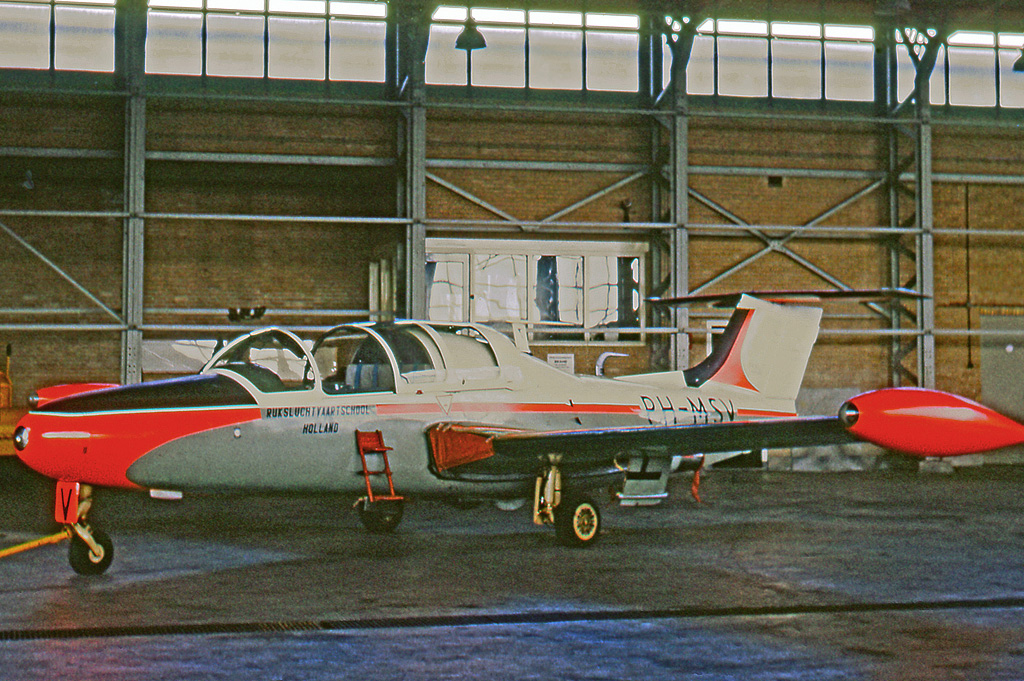 Morane-Saulnier MS.760B Paris PH-MSV of the Rijksluchtvaart School at Eindhoven Airport in 1967